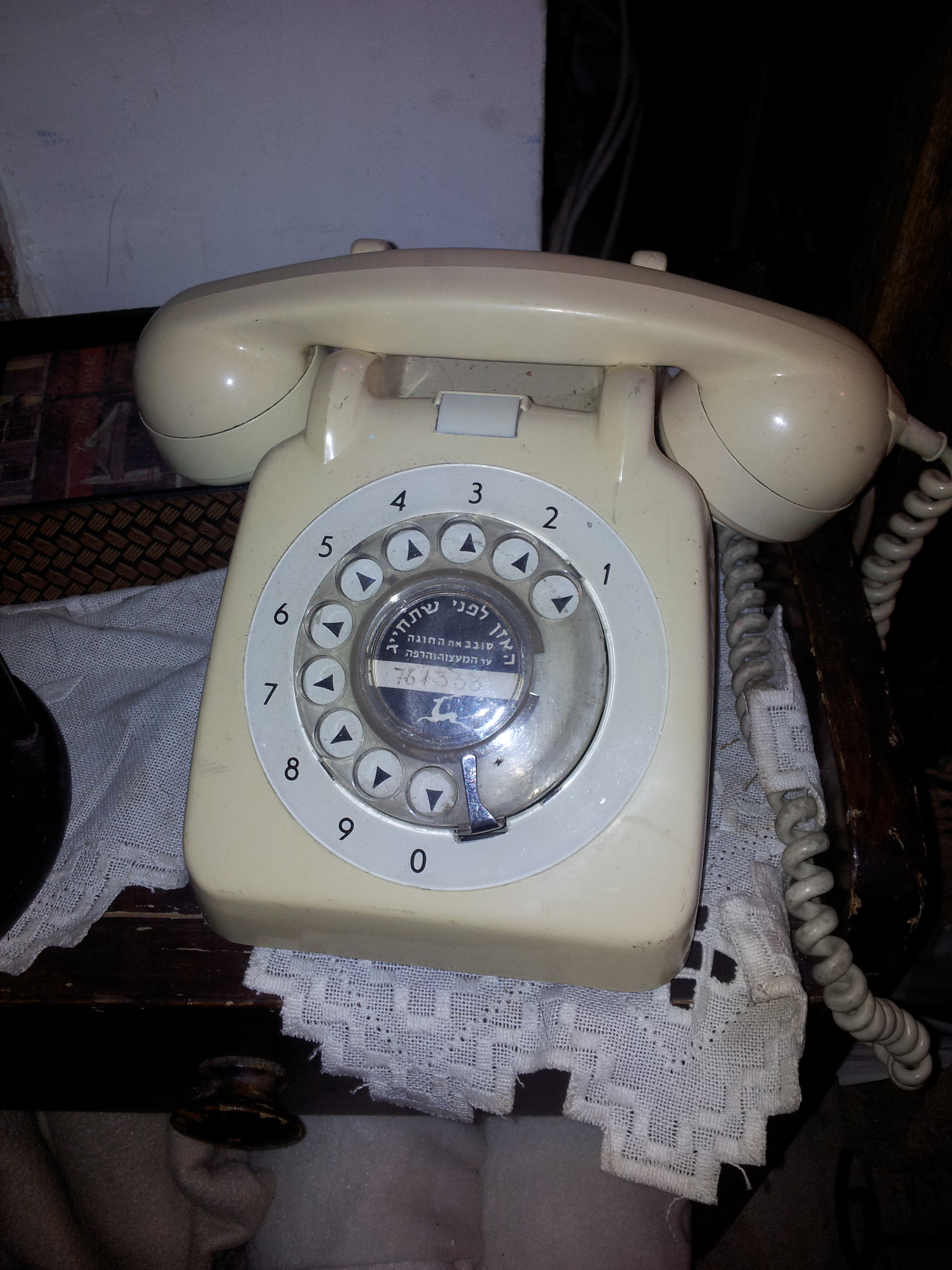 Israeli telephone used by communication ministry from the 60ies to the 80ies